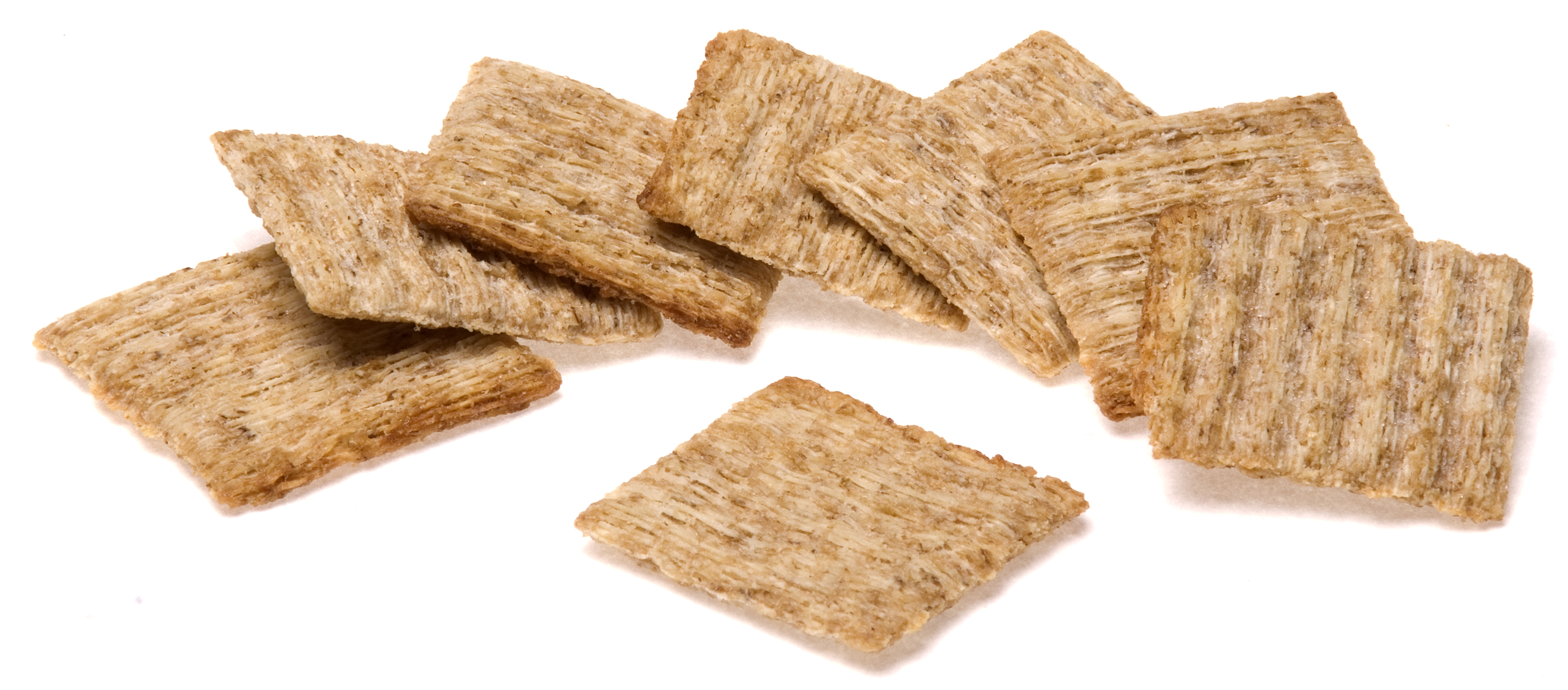 A pile of Nabisco Triscuit crackers.